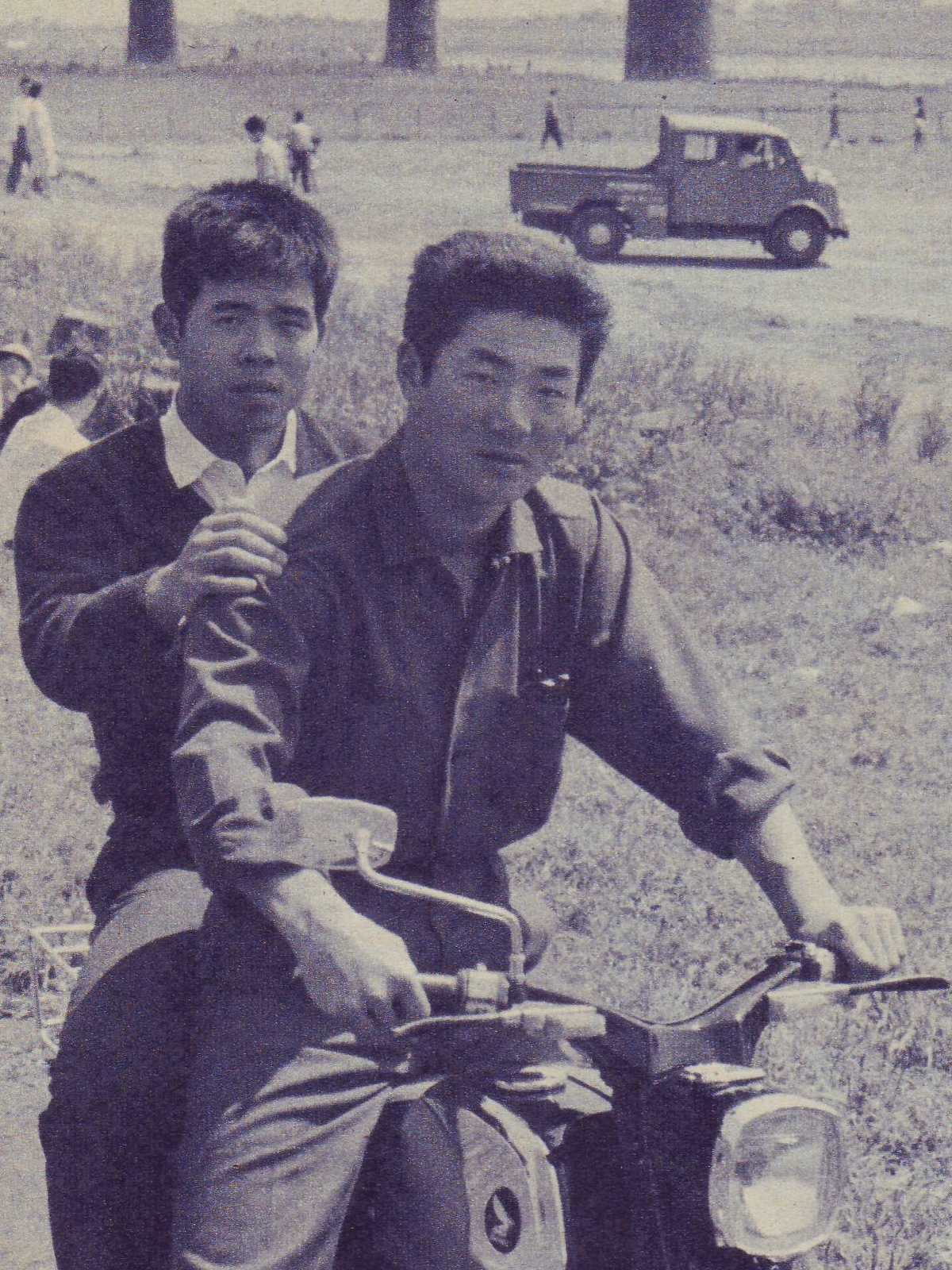 Isao Harimoto and Kimio Takagi (Toei Flyers. left). taken in 1959.